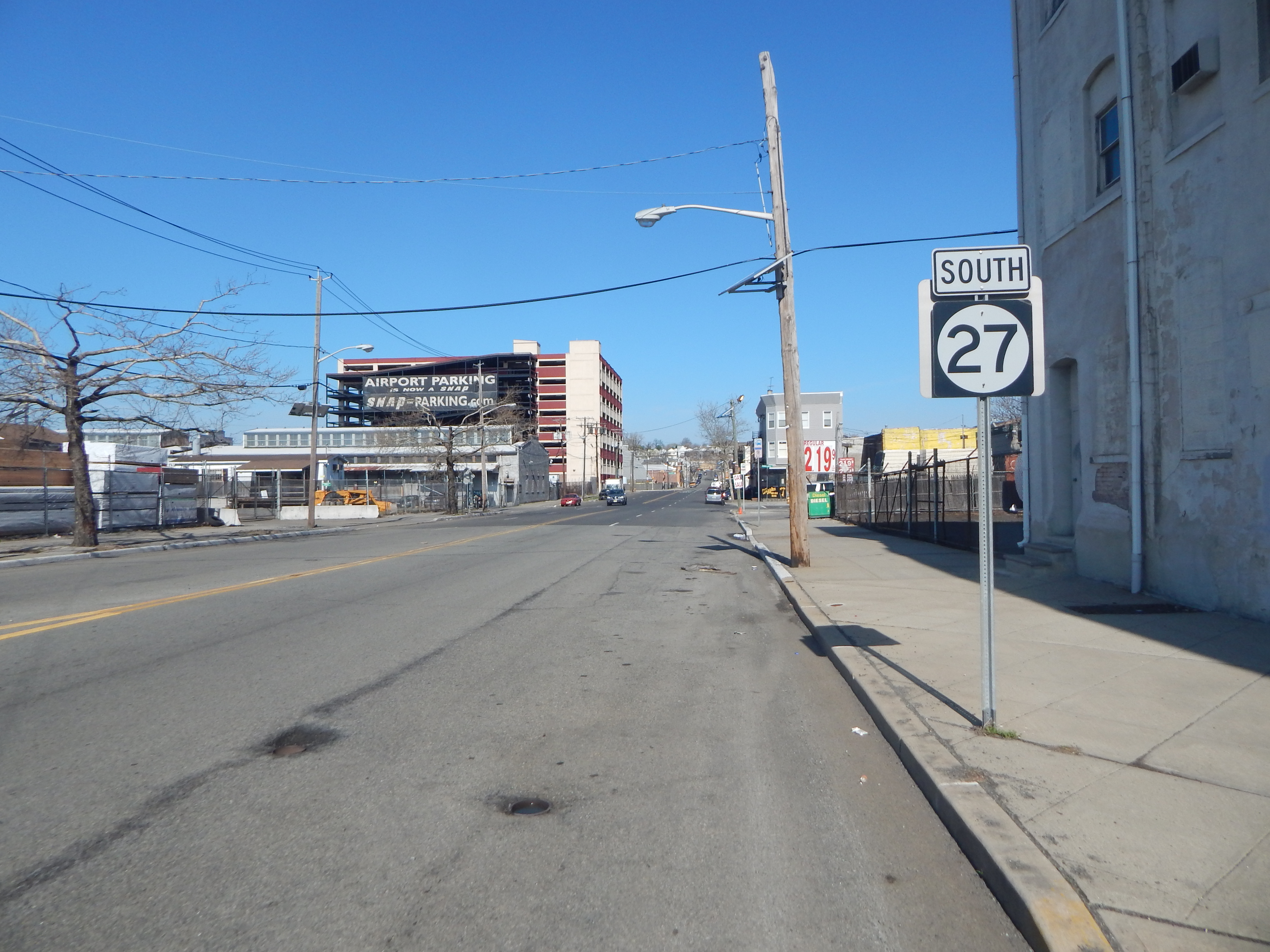 New Jersey Route 27 southbound in Newark, New Jersey.